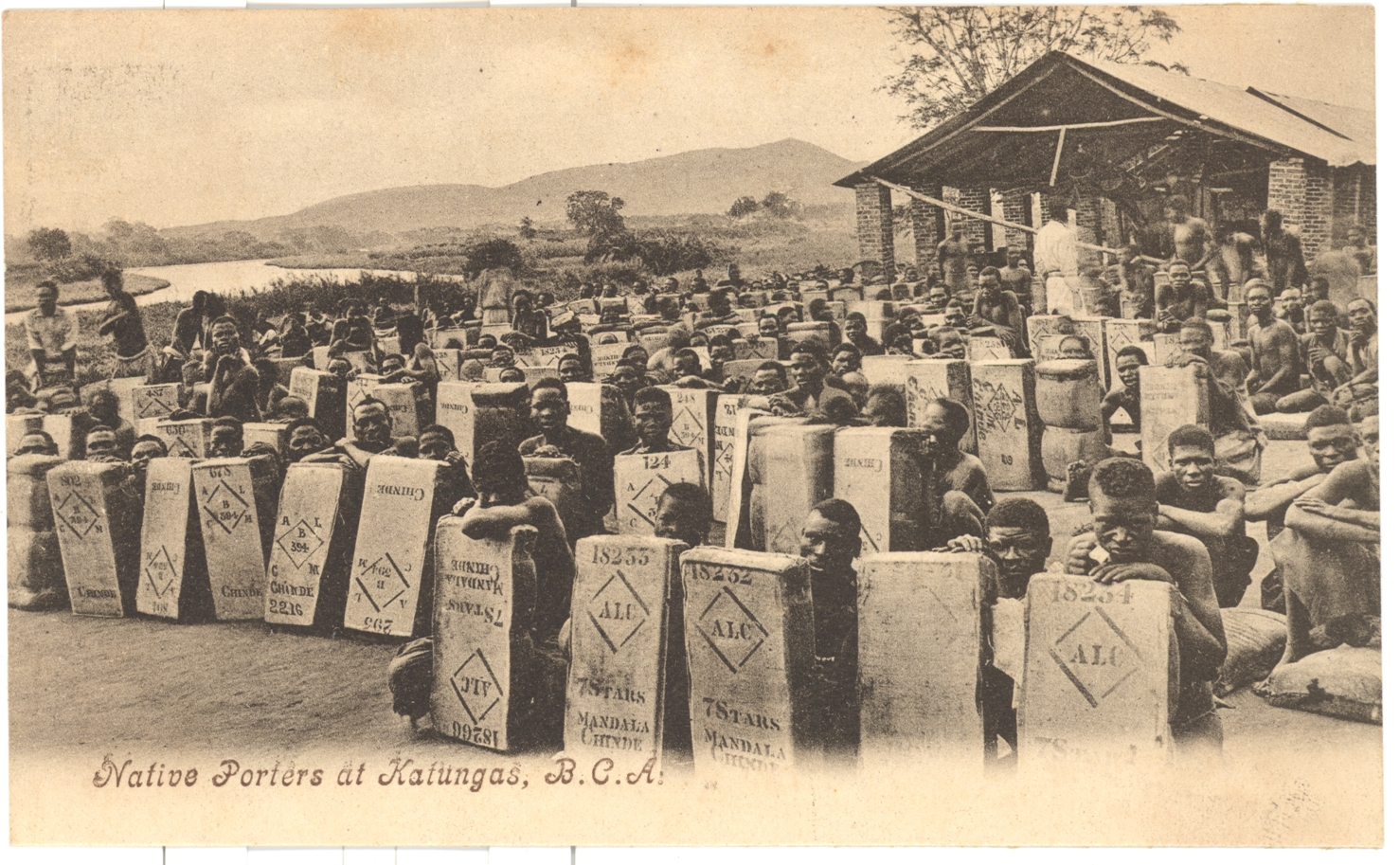 Native Porters at Katungas, B.C.A